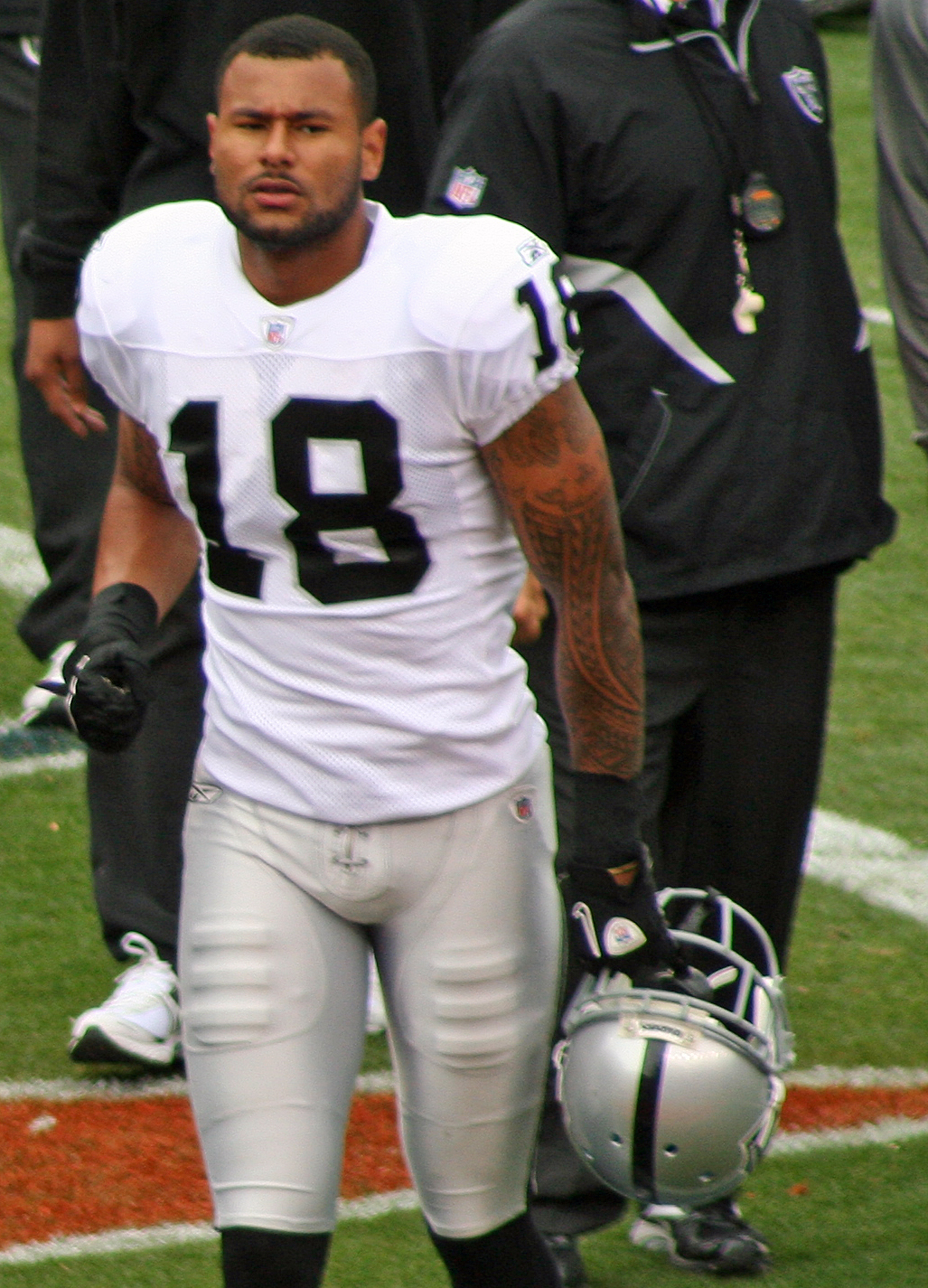 Louis Murphy, a player on the Oakland Raiders American football team.